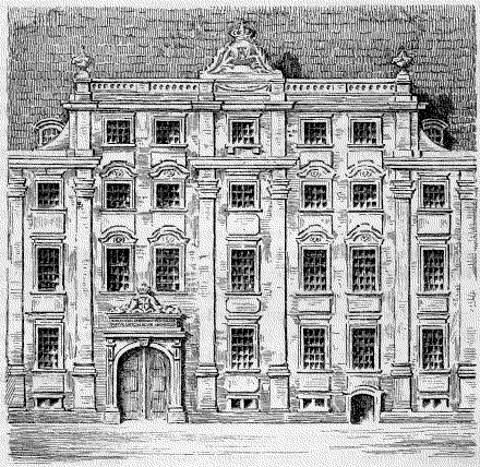 The Royal Danish Porcelain Manufacture in Købmagergade, Copenhagen. Originally built as post office and inn.